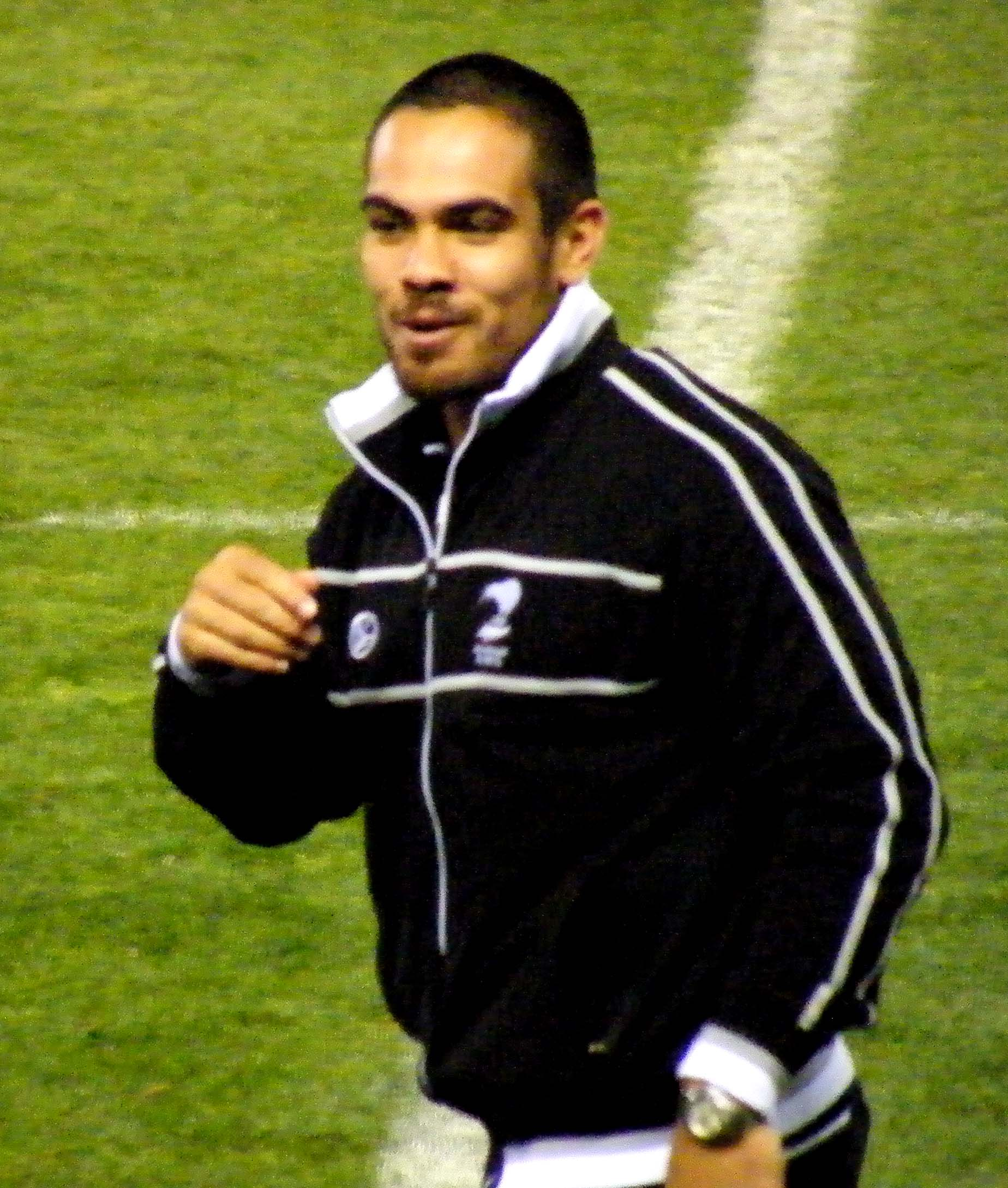 RLWC 2008 - England v New Zealand at Newcastle. New Zealand non playing reserve Dene Halatau.